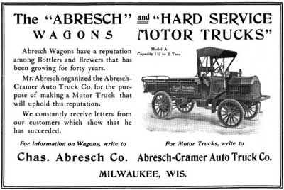 1910 Abresch wagon and Abresch-Cramer truck ad. Shown is the Model A truck, with a payload of 1.5-2 tn. These trucks were assembled vehicles built by the Charles Abresch Co. of Milwaukee, Wisc. Coachwork was done in-house, as the Company was a Long time builder of Commercial horse drawn vehicles. Engine was a 23 HP 4 cylinder unit. All trucks featured shaft drive to the countershaft, and chains to the rear wheels. Most customers were brewers or bottlers.